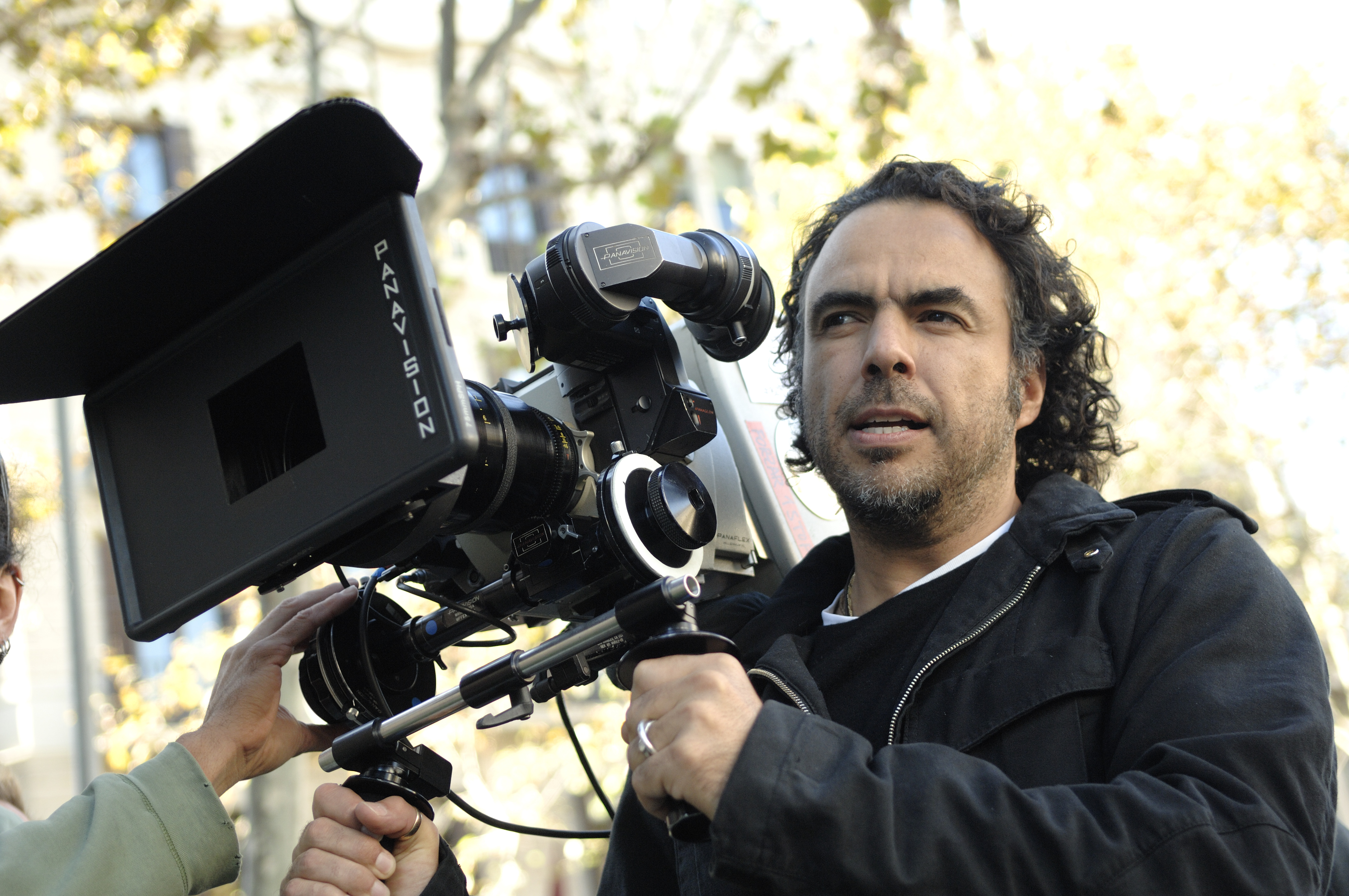 A photo of Mexican film director Alejandro Iñárritu in Barcelona, Spain during movie production.